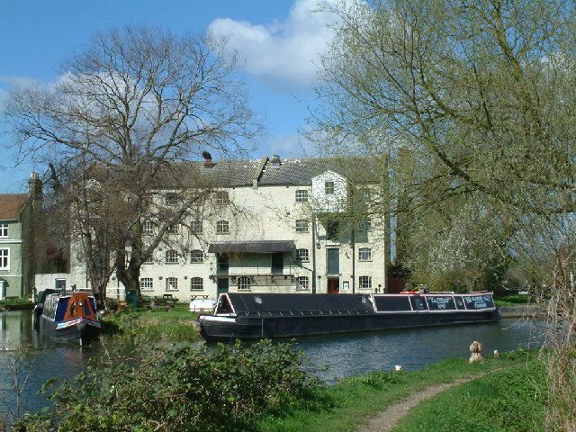 Parndon Mill. Parndon Mill from the towpath of the River Stort Navigation